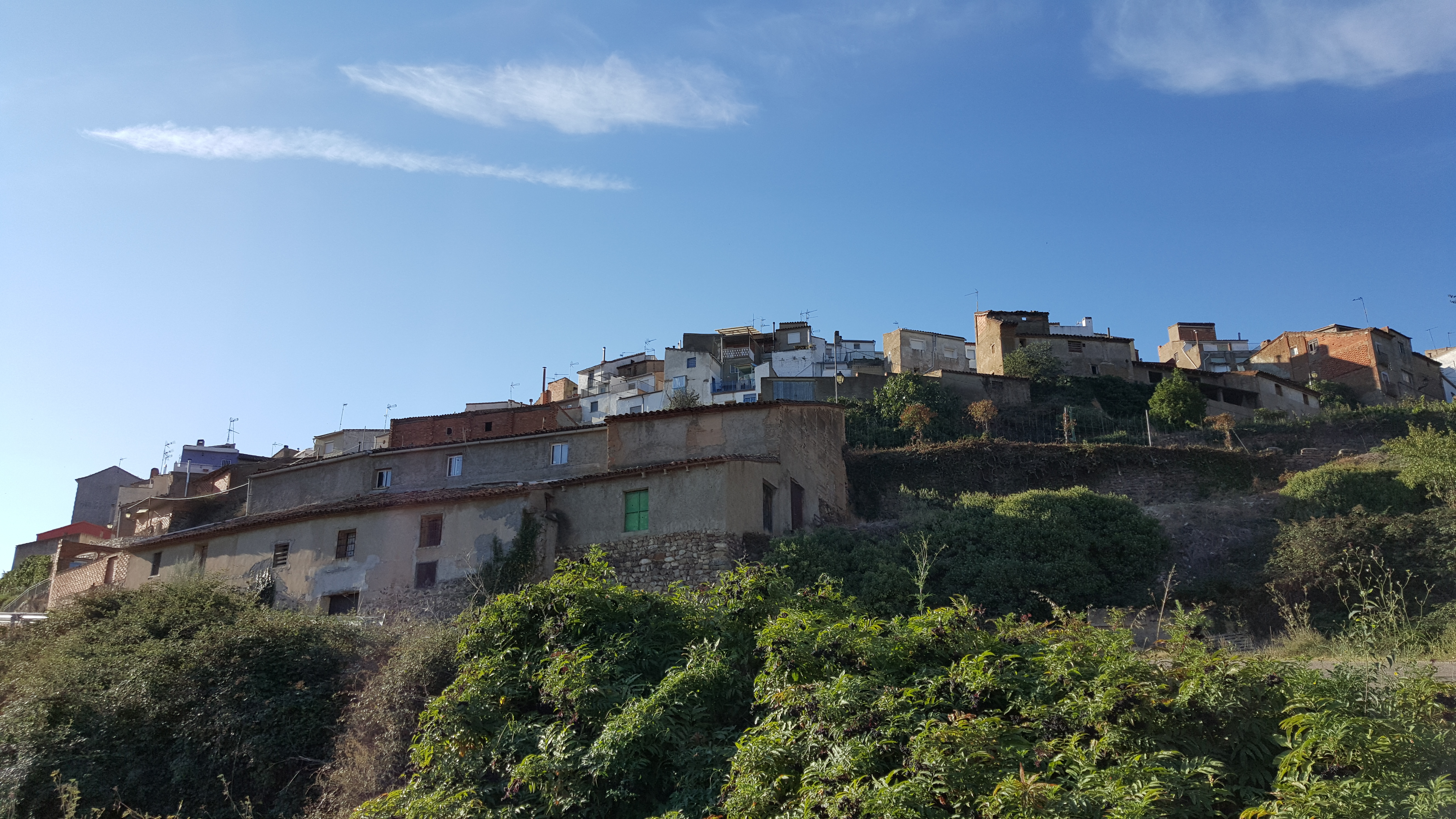 Santa Cruz de Grío, Zaragoza, Spain